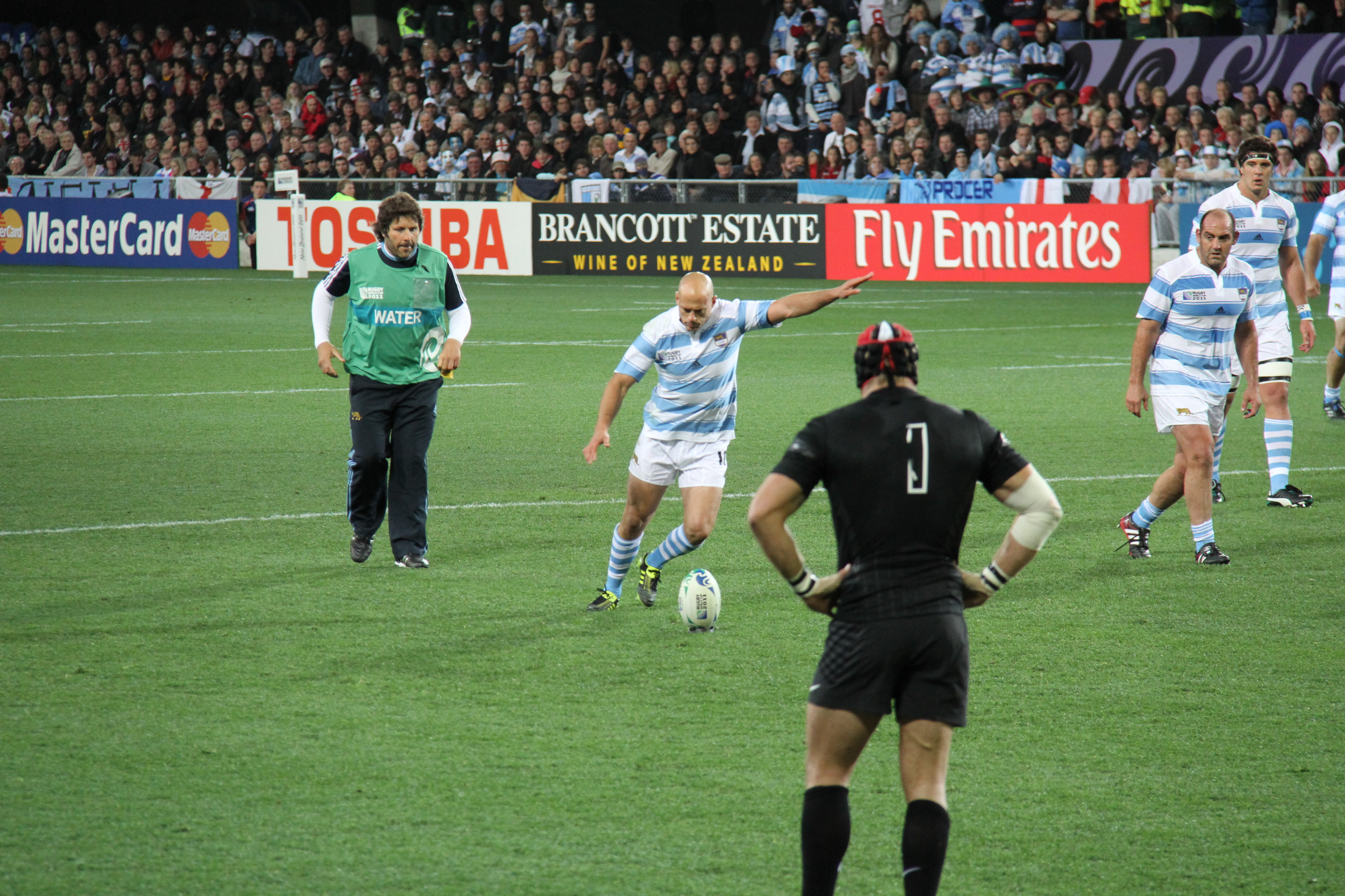 Argentinian rugby union player Felipe Contepomi during 2011 Rugby World Cup match against England.